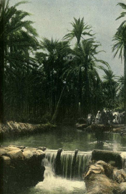 An illustration from Jules Verne's novel "Invasion of the Sea" (1905) drawn by Léon Benett.